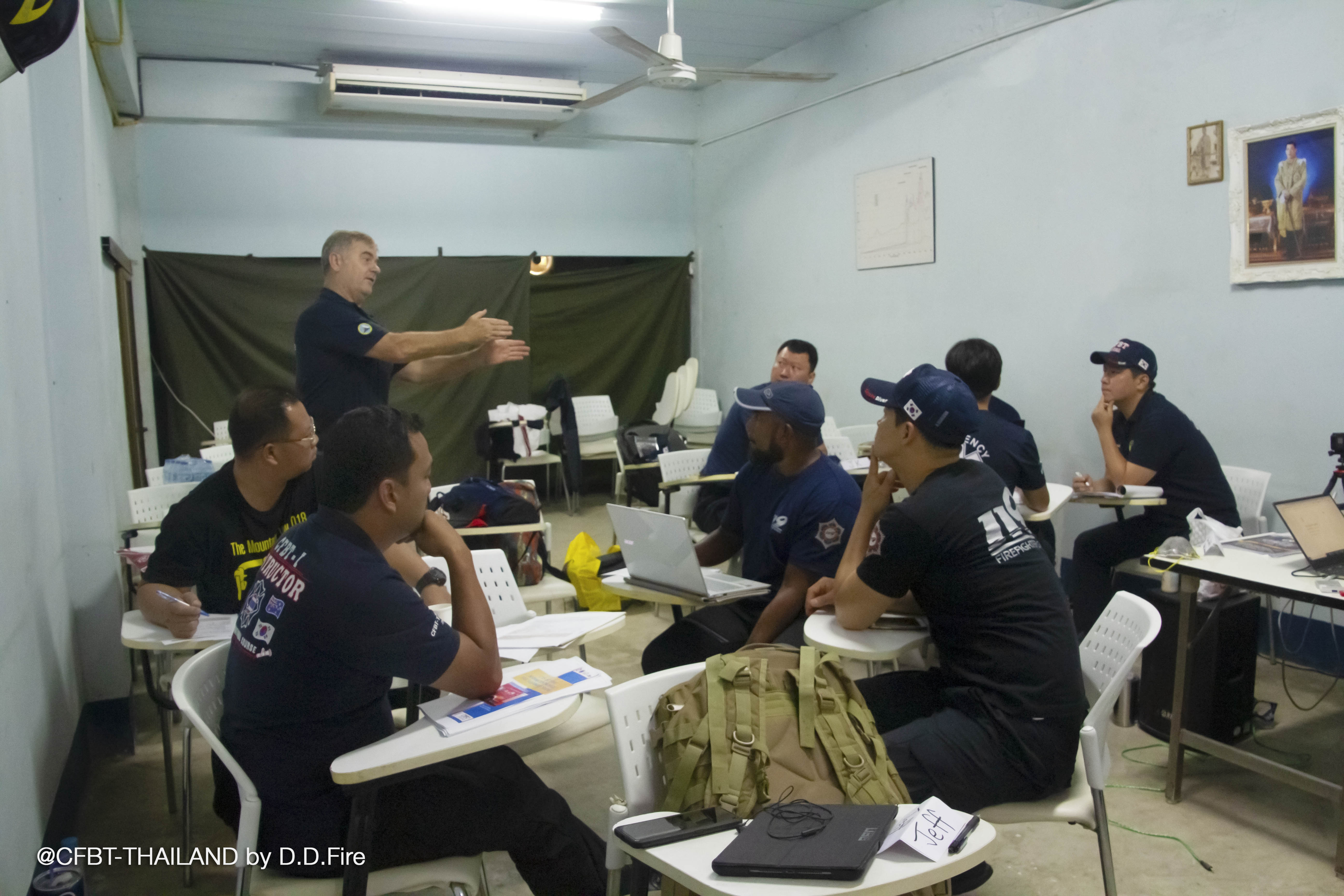 Shan Raffel, Yang Jaeyoung (firefighter), Chadchaleo Bunnag, Lee Hyungeun (firefighter), 2019 CFBT-I Instructor and Tactical Ventilation Instructor International Course